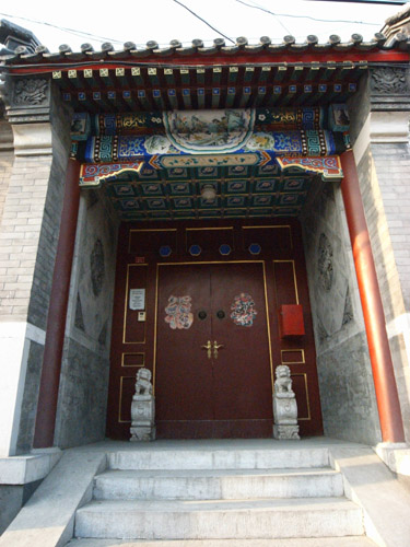 A front entrance into a siheyuan (courtyard house) in Beijing